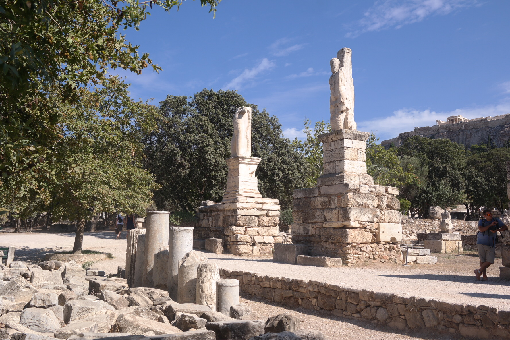 The Ancient Agora of Classical Athens is the best-known example of an ancient Greek agora, located to the northwest of the Acropolis and bounded on the south by the hill of the Areopagus and on the west by the hill known as the Agoraios Kolonos, also called Market Hill.